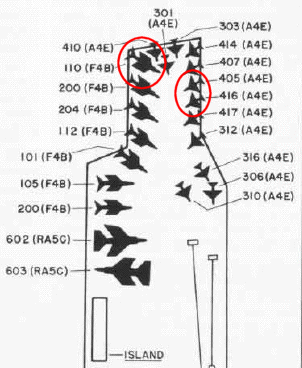 Deck plan of the U.S. aircraft carrier USS Forrestal (CVA-59) on 29 July 1967 in the Gulf of Tonkin during the Vietnam war, when an accidentially launched rocket led to a catastrophe that killed 134, and injured 62. 21 aircraft of Attack Carrier Air Wing 17 (CVW-17) (tail code "AA") were destroyed. It was published in the Naval Aviation News, October 1967.